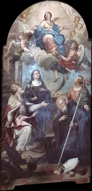 Gerolamo Pesci - La Vergine circondata da Santa Scolastica, San Benedetto, San Silvestro e Santa Margherita (1753 circa), oil on canvas, preserved at Santa Scolastica church in Rieti (Italy)